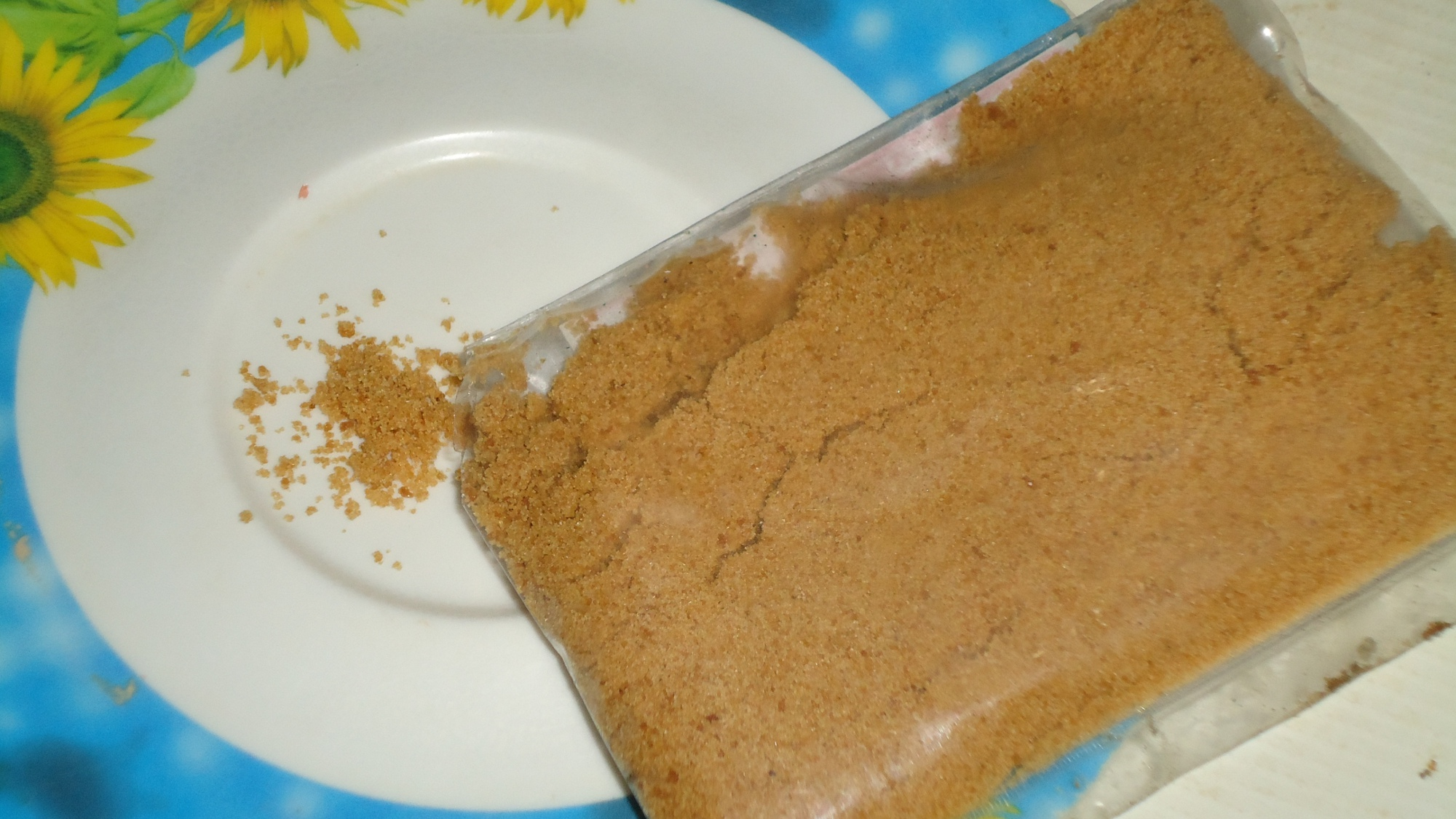 A sachet of Ginger (Zingiber officinale) powder.